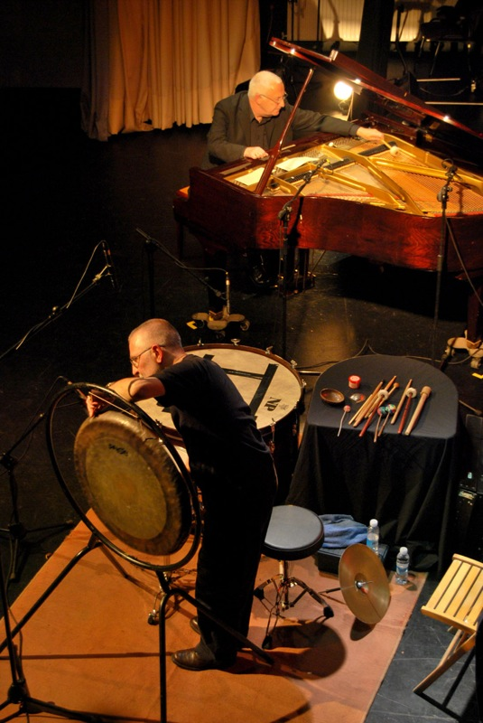 AMM 4.0 (John Tilbury & Eddie Prévost) live @ ERTZ08 Kultur etxea, BERA (Nafarroa) 2008